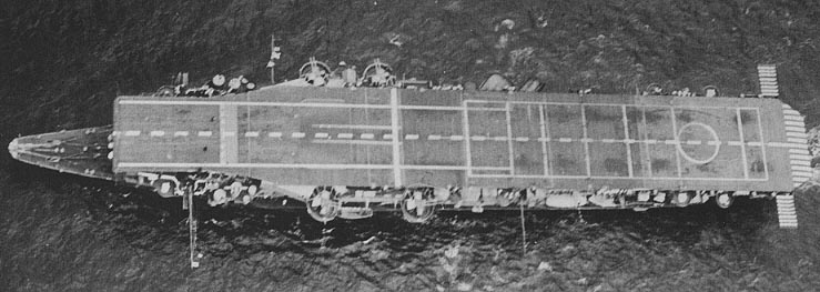 Japanese aircraft carrier Ryujo at sea between 1934 and 1937 with only 4x2 127mm AA-guns after 1934 refit.